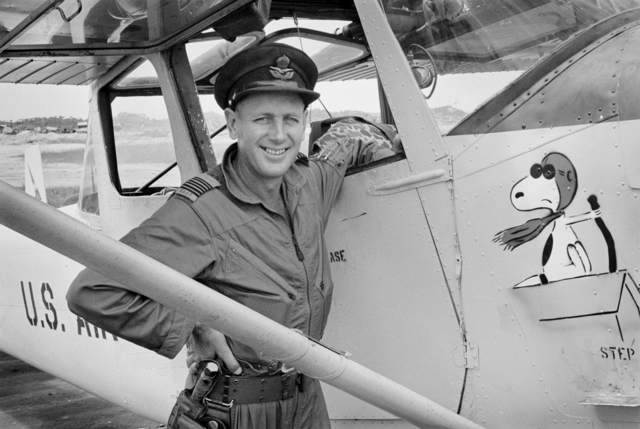 Vietnam: Vung Tau Special Zone, Vung Tau. 33624 Wing Commander (Wing Cdr) Vance Drummond, of Hamilton, New Zealand, and more recently of Hackett, ACT, was snapped by the RAAF News Camera, sliding into the cockpit of his Cessna 01 'Bird Dog' nick named 'Snoopy' at Vung Tau airfield, South Vietnam. For the past eight months, Wing Cdr Drummond has been on exchange duty with the United States Air Force (USAF) in Vietnam. Wing Cdr Drummond's first months in Vietnam were at Tan Son Nhut Airfield, Saigon, with the Tactical Air Control Centre. Now Wing Cdr Drummond flies 'Snoopy', snooping along in the air just high enough to clear the tall Vietnamese trees growing out of the jungle, looking for Viet Cong (VC). He is the only RAAF officer in Vietnam flying a Forward Air Control (FAC) for the USAF. He only sees other RAAF members when he calls into the base at Vung Tau on a monthly basis to collect his mail and pay. His job as FAC is to search for columns of VC moving through the jungle and when spotted he calls up the strike aircraft and directs them to the target. When the strike aircraft is finished, Wing Cdr Drummond flies in and fires the four, two inch rockets carried on his wing pods. Wing Cdr Drummond has also been an interpreter in Japan; a fighter pilot in Korea, where he was shot down and held prisoner for 14 months; the leader of one of the RAAF's best known aerobatic teams 'The Black Diamonds' flying sabres a subsonic aircraft. In comparison his Cessna 01 'Bird Dog' buzzes along at only 90 miles an hour. Note the Snoopy nose art painted on the aircraft.